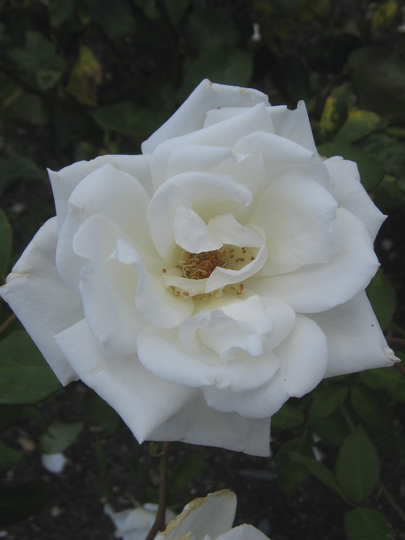 Rose 'Mrs Herbert Stevens', Hybrid Tea by McGredy 1910; photographed in the Nieuwesteeg Heritage Rose Garden, Maddingley Park, Bacchus Marsh, Victoria